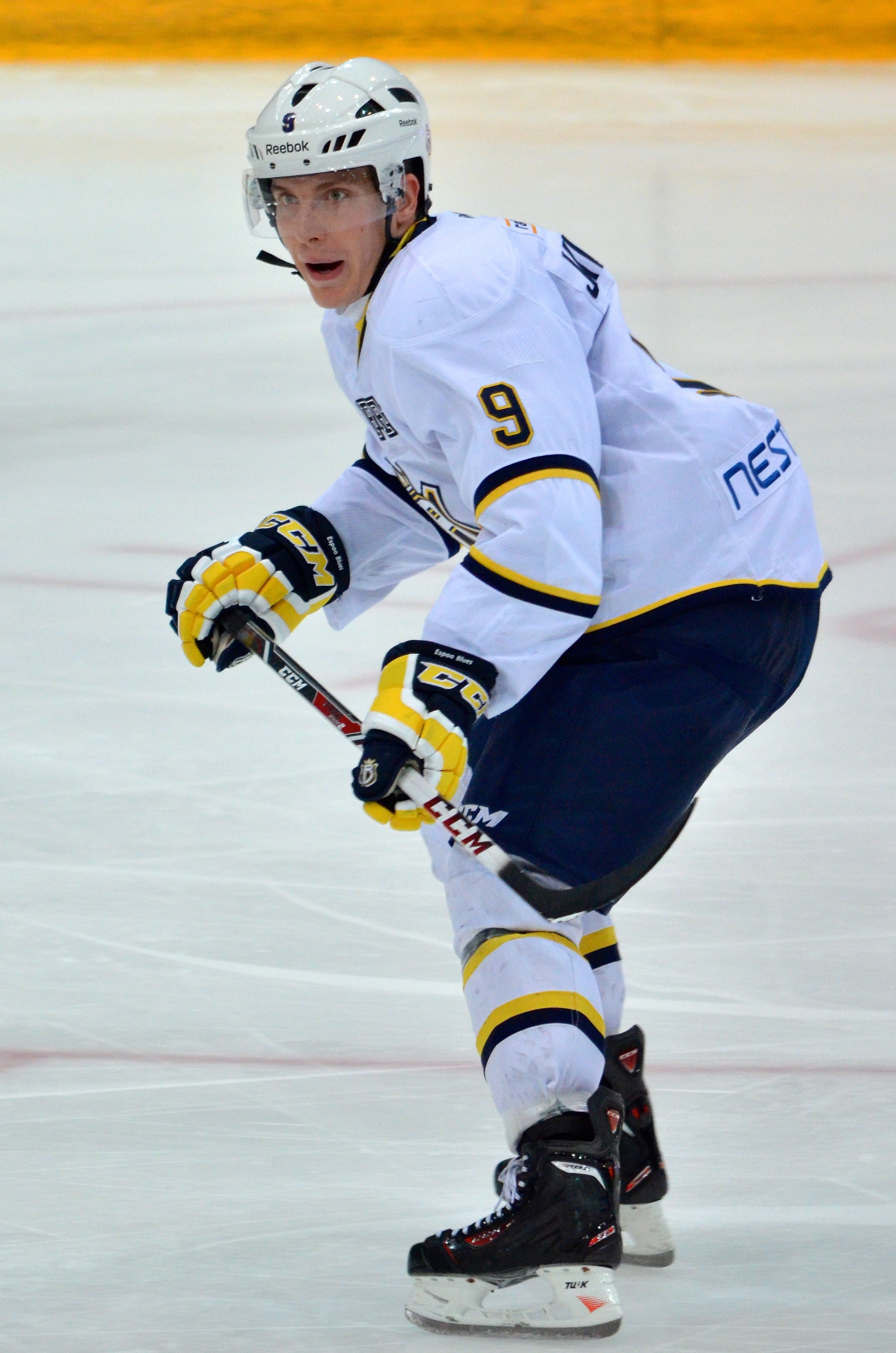 Finnish ice hockey defenseman Joonas Jalvanti playing for Espoo Blues in an SM-liiga preseason game against Tampere Ilves, in Tampere, Finland.